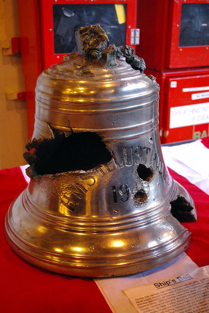 Damaged 1940s ship's bell, aboard the "new" HMS Illustrious (R06)